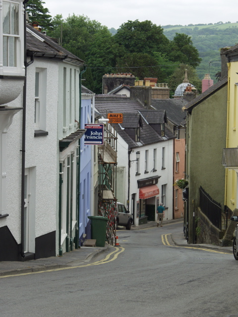 Llandeilo - view down Stryd Caerfyrddin